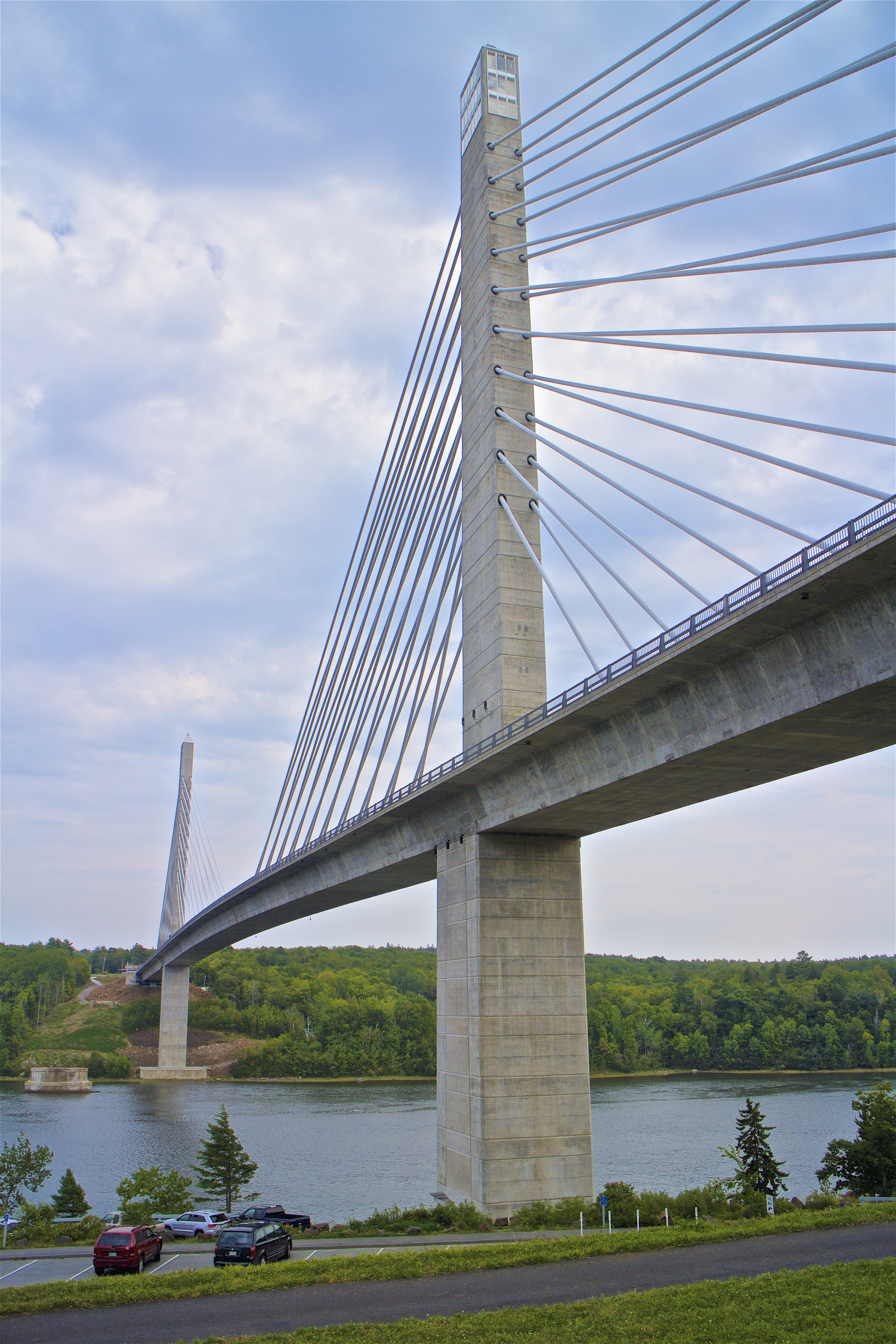 Penobscot Narrows Bridge and Observatory, view from the west. The observatory, at the peak of the west tower, is seen at top; at bottom, a parking lot surrounds the base of the west tower, which houses an entrance and elevators to take visitors up the west tower shaft to the observatory.